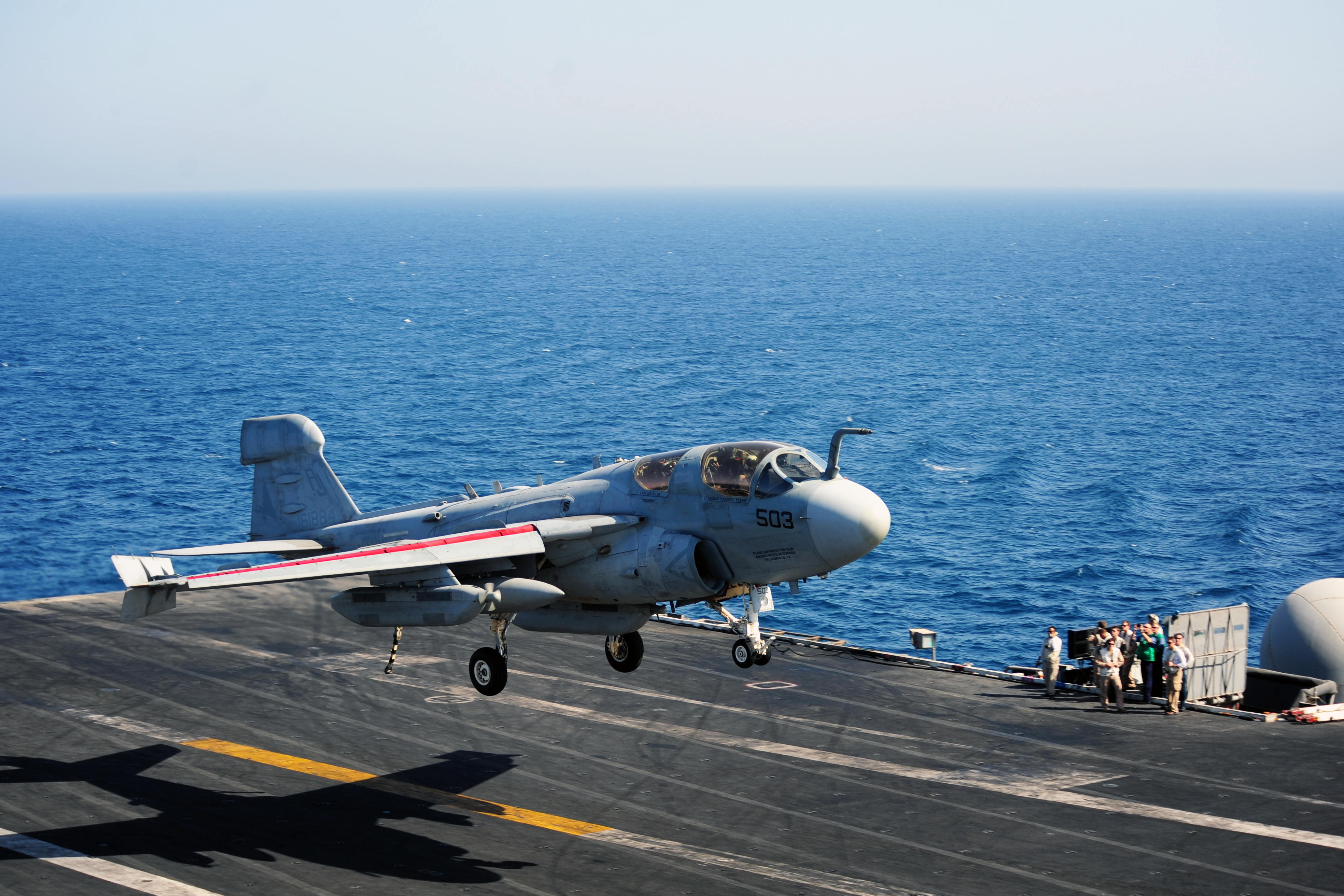 ARABIAN GULF (July 21, 2014) An EA-6B Prowler assigned to the Garudas of Electronic Attack Squadron (VAQ) 134 prepares to land on the flight deck of the aircraft carrier USS George H.W. Bush (CVN 77). George H.W. Bush is supporting maritime security operations and theater security cooperation efforts in the U.S. 5th Fleet area of responsibility. (U.S. Navy photo by Mass Communication Specialist 3rd Class Joshua Card/Released) 140721-N-CZ979-490Join the conversation